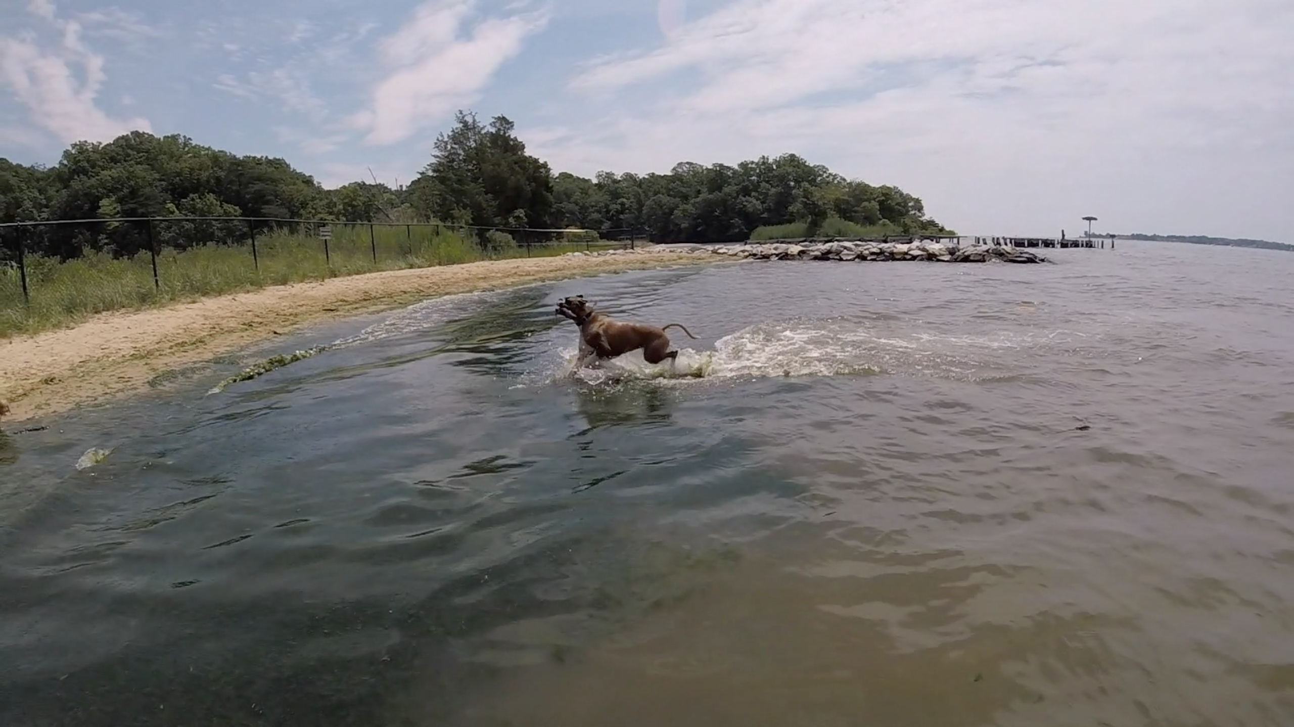 Dog Playing at Quiet Waters Park in Anne Arundel County Maryland